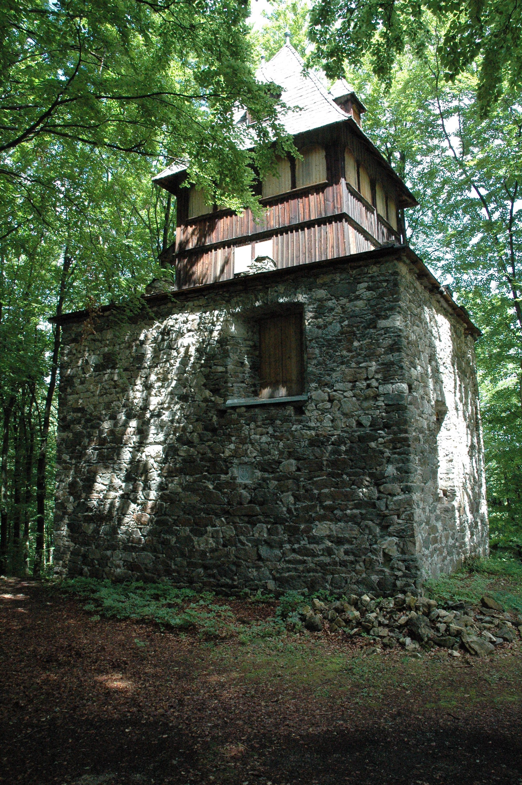 Watch tower of the castle ruin Reifnitz, municipality Maria Woerth, district Klagenfurt Land, Carinthia, Austria